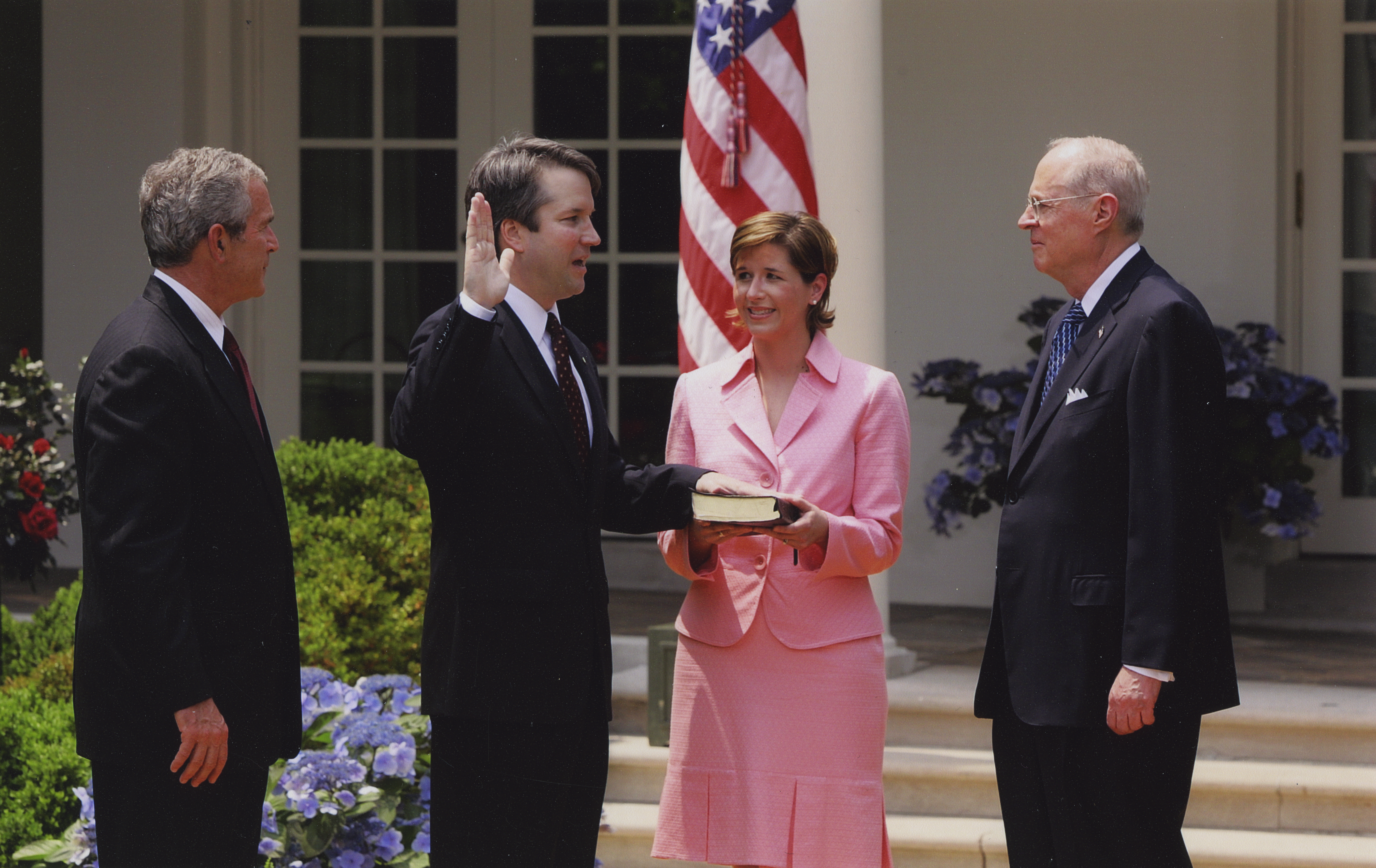 Brett Kavanaugh is sworn into the DC Circuit by Justice Anthony Kennedy on June 1, 2006. Next to him is President George W. Bush and his wife, Ashley Estes Kavanaugh, who is holding the Bible. Part of a slide show, "A Remarkable Career in Photos: Judge Kavanaugh to Testify Before the Senate"